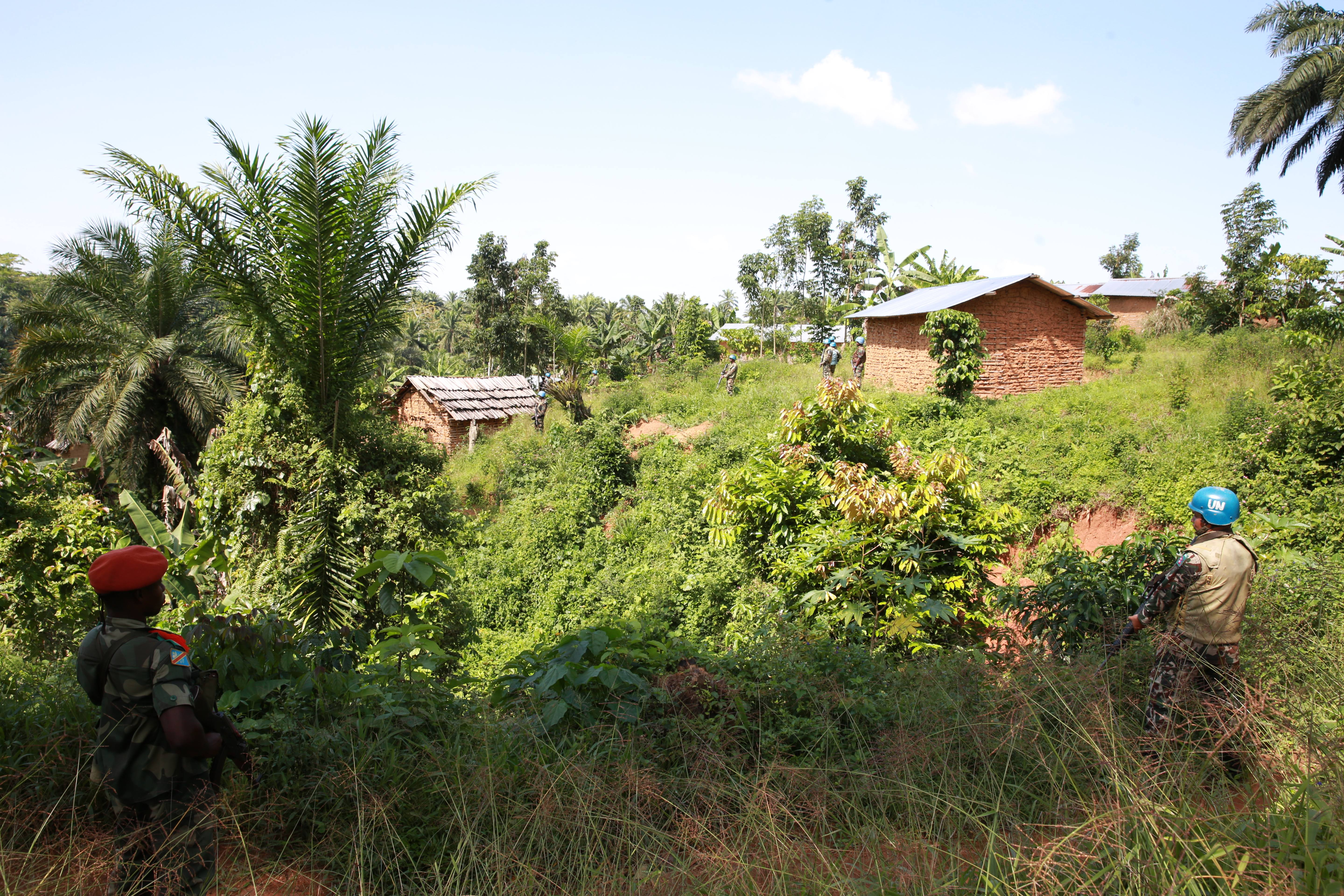 LEGENDE : 05 décembre 2014. Eringeti, Nord Kivu : Opération de sécurisation conjointe entre les troupes de la MONUSCO et les FARDC dans la localité d’Eringeti. Suite aux récents massacres dans le territoire de Beni, le Chef de la MONUSCO, Martin Kobler, a demandé des actions conjointes MONUSCO-FARDC immédiates pour éliminer les terroristes. Photo MONUSCO/Abel Kavanagh CAPTION: Eringeti, North Kivu, DR Congo, 05 December 2014: Joint security operation by MONUSCO and FARDC troops in the locality of Eringeti. Following the recent massacres in the Beni territory, the Head of MONUSCO, Martin Kobler, called for immediate joint MONUSCO-FARDC actions to eliminate the terrorists. Photo MONUSCO/Abel Kavanagh